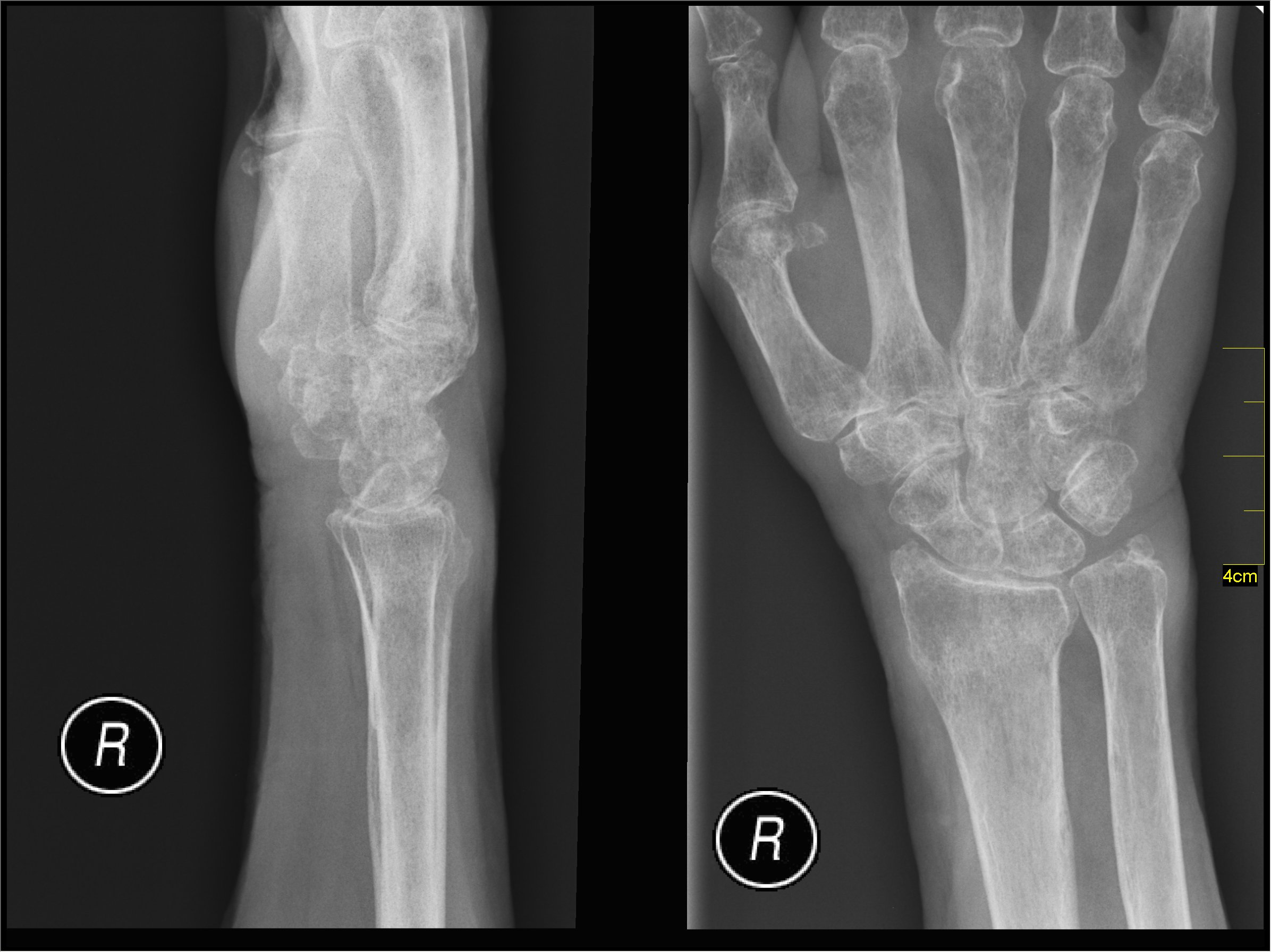 Osteoporosis Hand and wrist. Medical X-ray